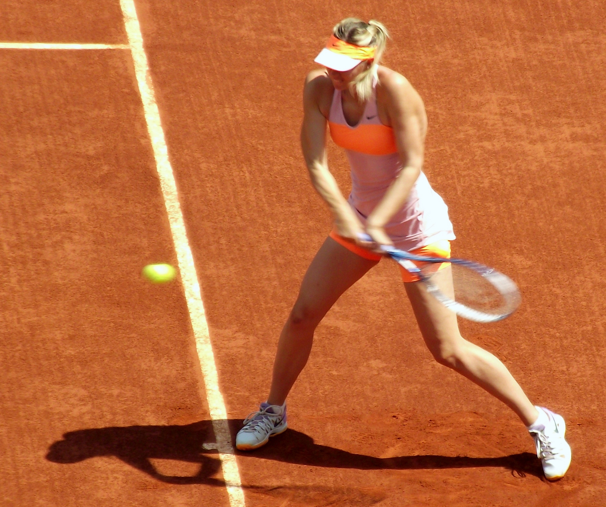 Russian Maria Sharapova at 2014 French Open. 2014 Roland Garros, Paris, France.